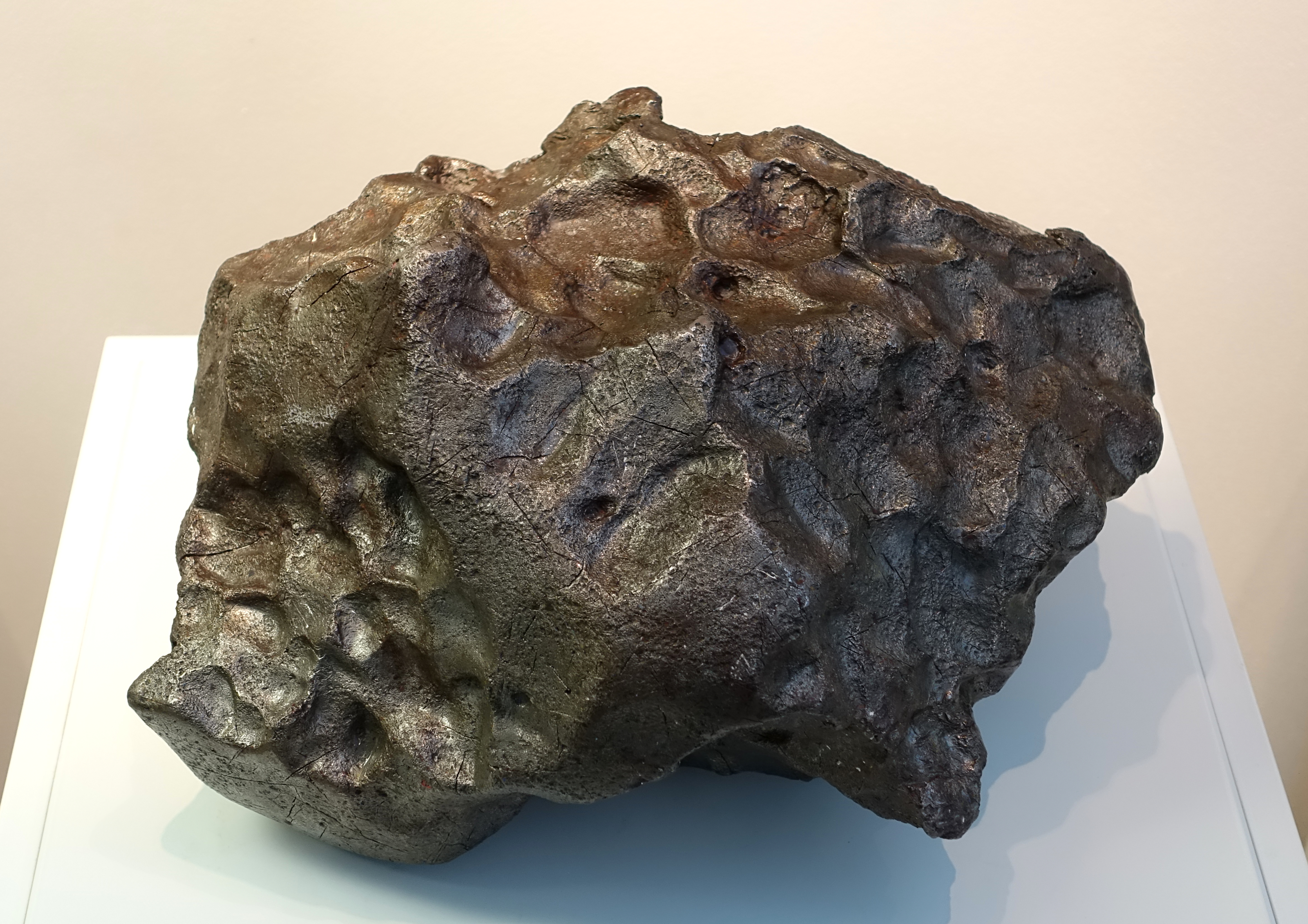 Unter-Mässing meteorite in the Naturhistorisches Museum Nürnberg - Nuremberg, Germany.